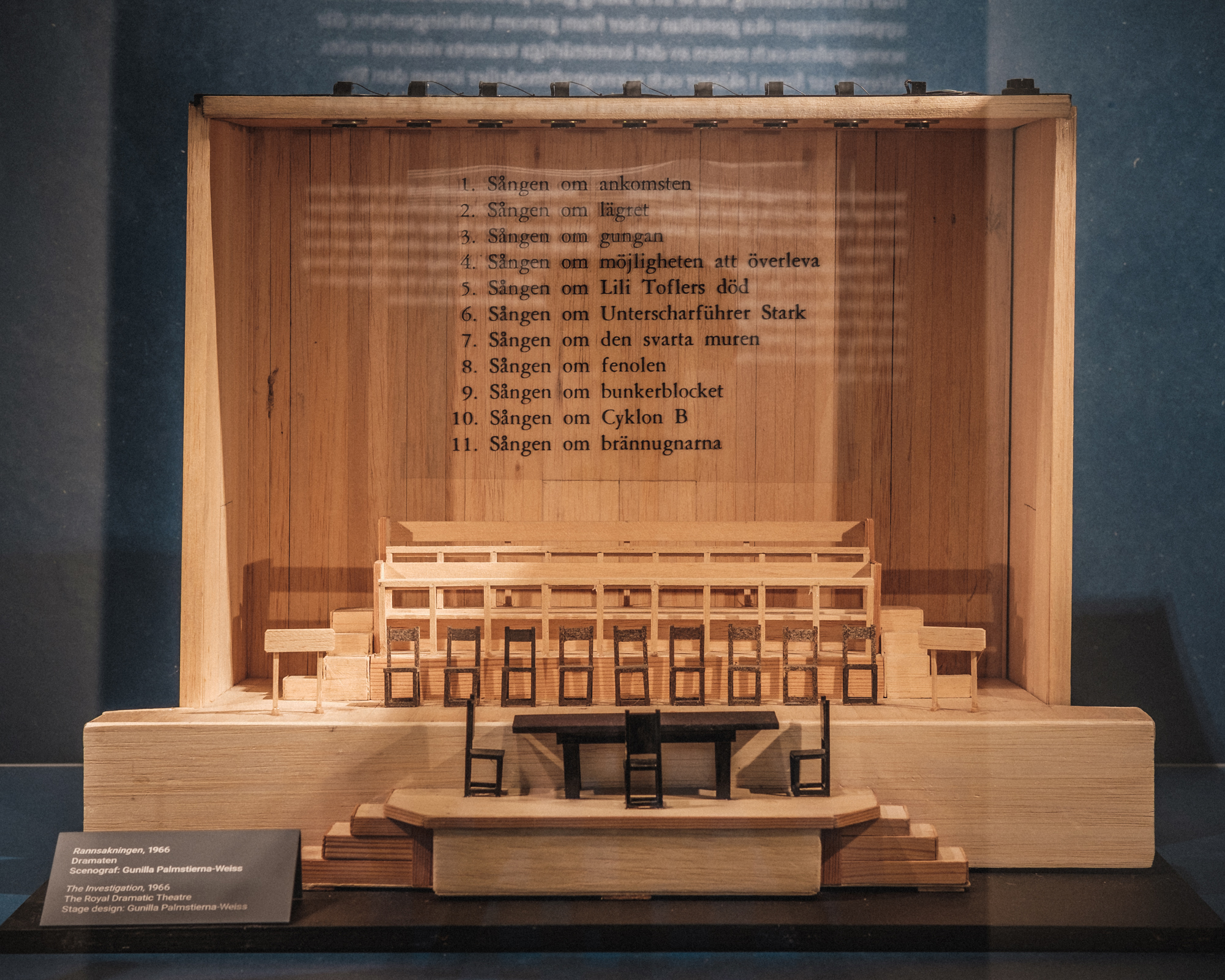 Set design model made by Gunilla Palmstierna-Weiss for the adaption of Rannsakningen at the Royal Dramatic Theatre in Stockholm, 1966. The model is on exhibit in the main exhibition at the Swedish Museum of Performing Arts in Stockholm and is also included in the museum's collection.